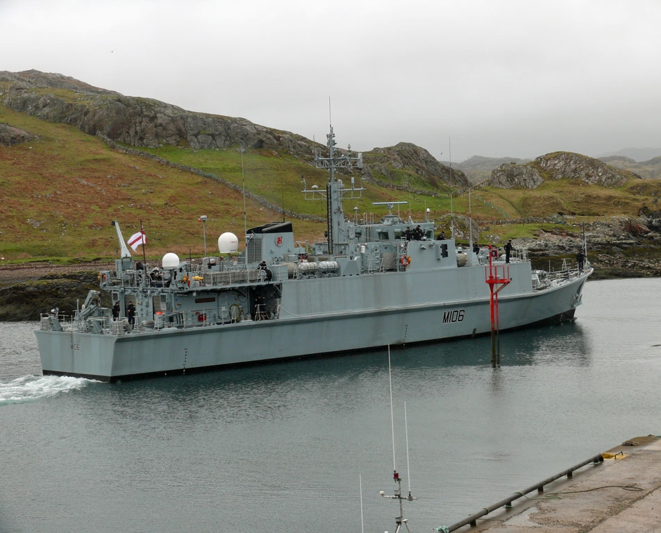 The Sandown class mine hunter HMS Penzance of the Royal Navy around Kinlochbervie, 2009.